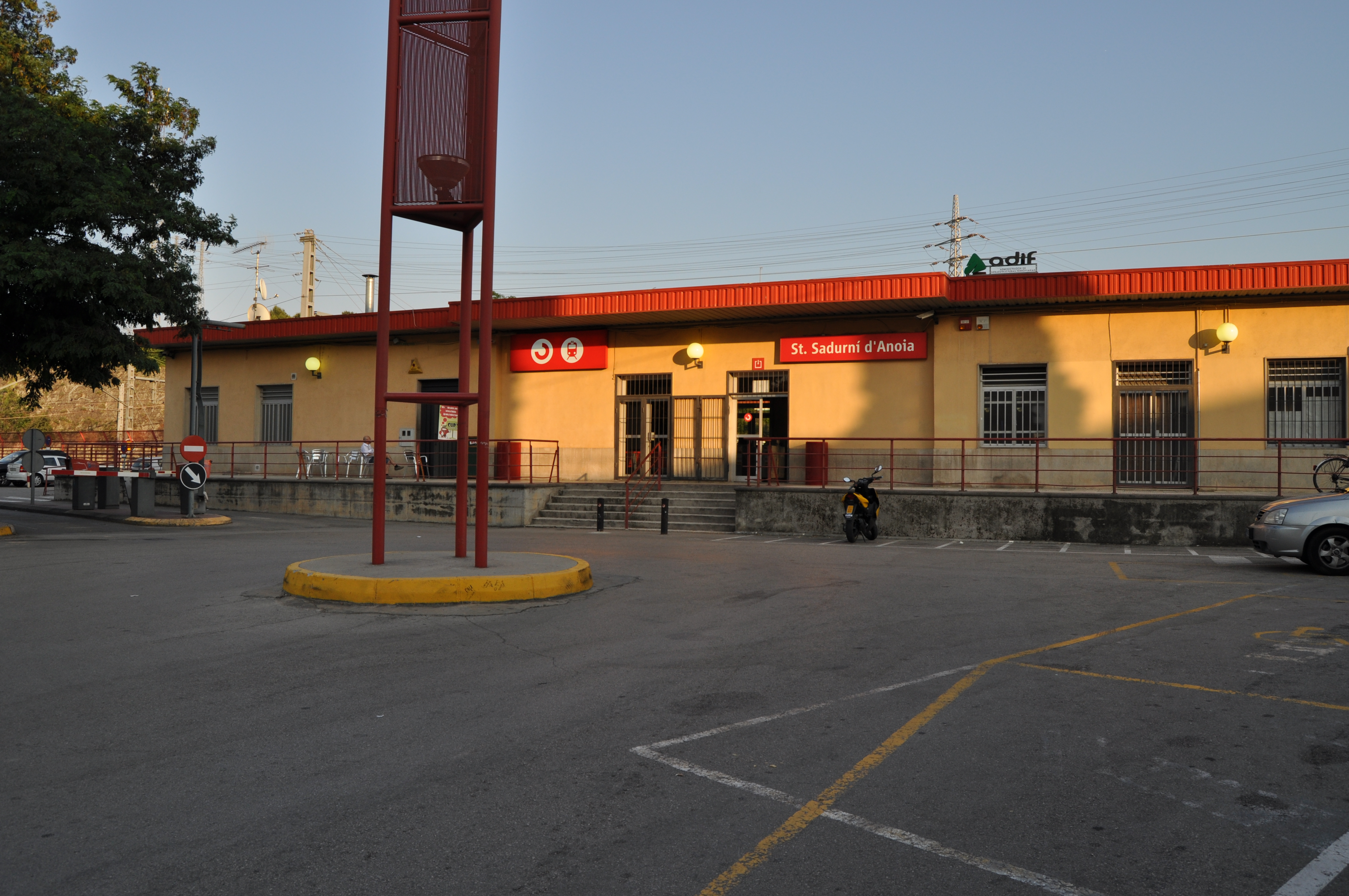 Sant Sadurní d'Anoia rail station (Spain)